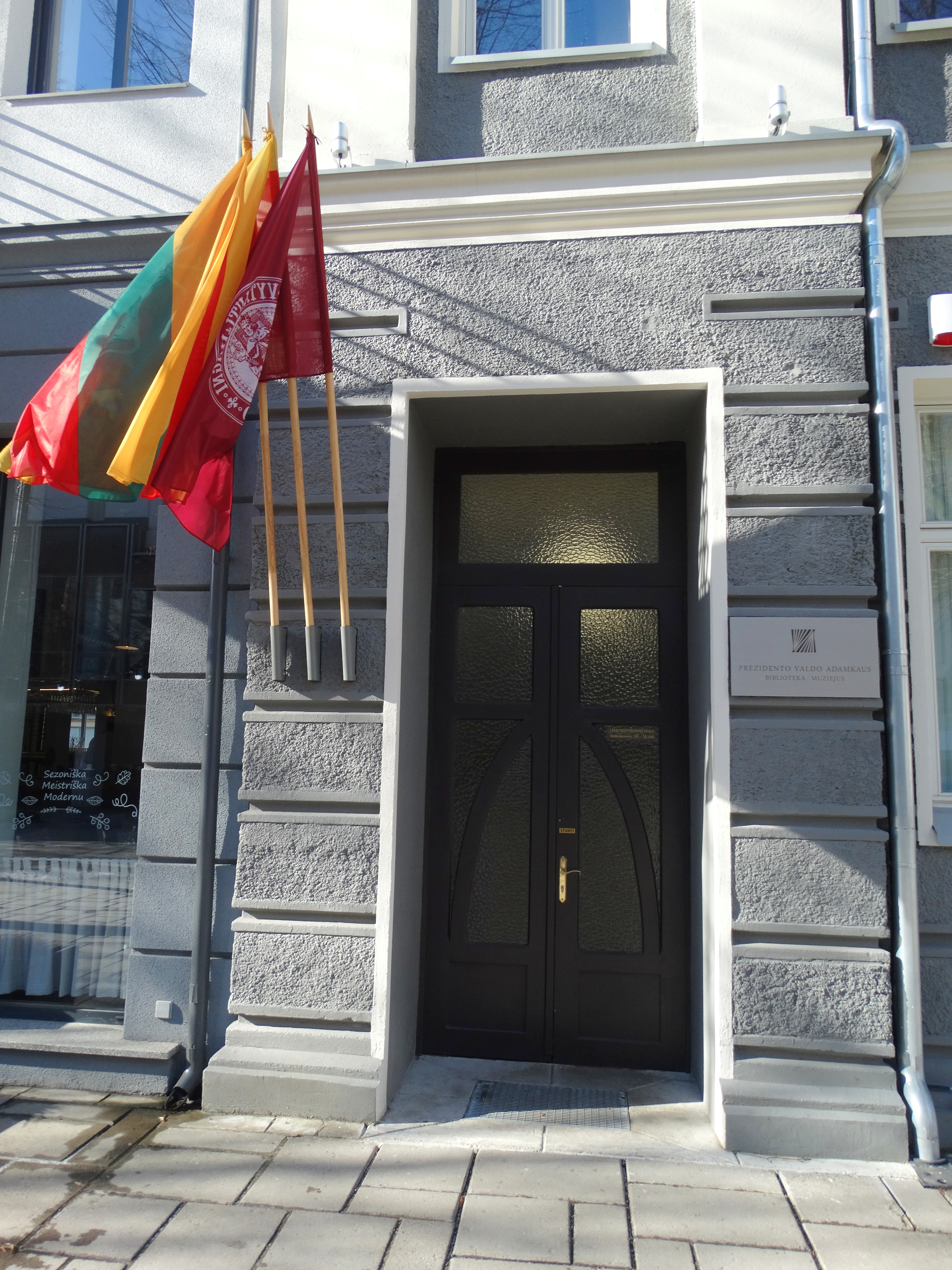 President V. Adamkus' library, Kaunas, Lithuania